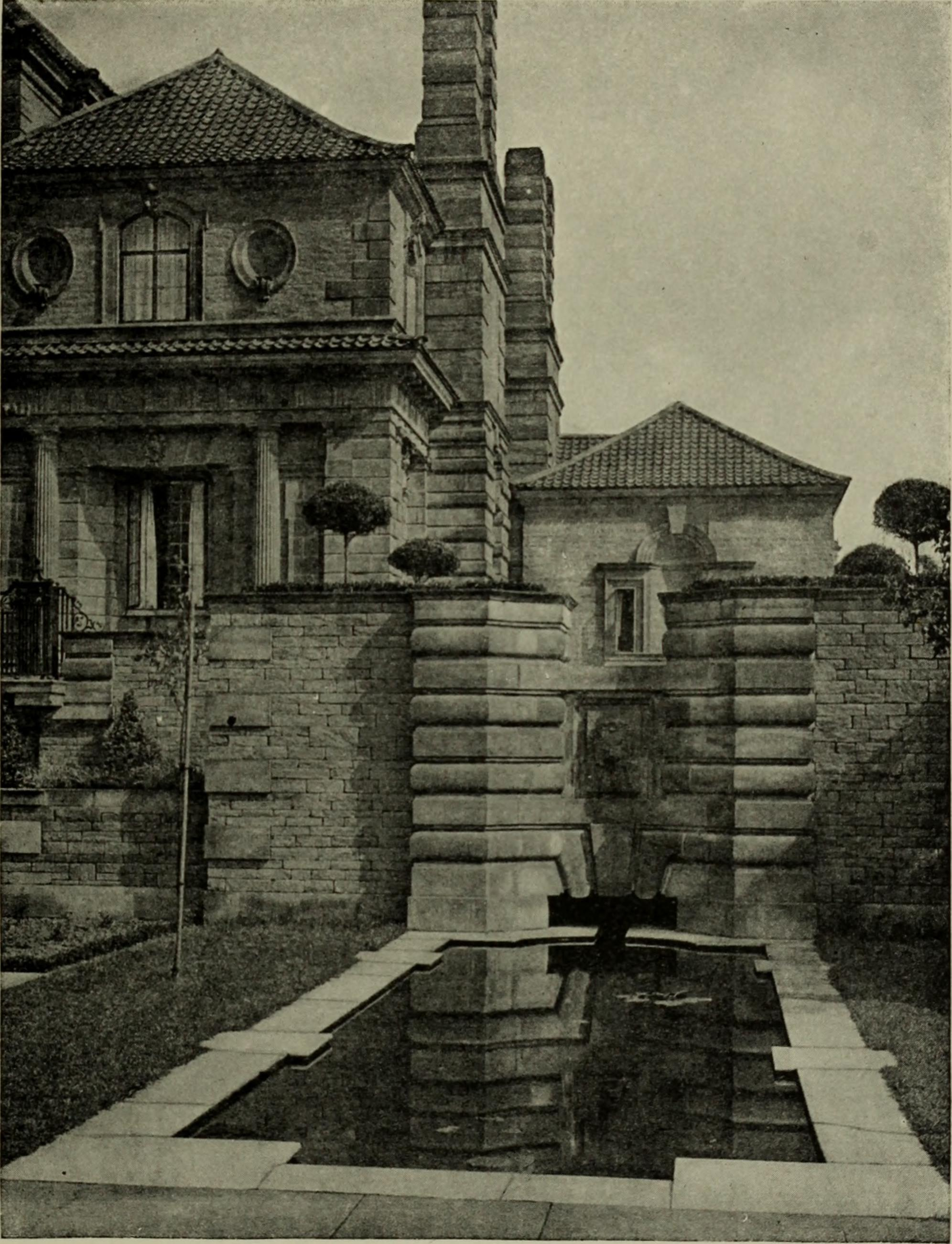 Title: Lutyens houses and gardens Year: 1921 (1920s) Authors: Weaver, Lawrence, 1876-1930 Subjects: Lutyens, Edwin Landseer, Sir, 1869-1944 Architecture, Domestic Gardens Publisher: London, Offices of "Country life", ltd. (etc.) New York, C. Scribner's Sons Text Appearing Before Image: nt severity is relaxed, and there are touches, not ofgaiety, but of a smiling graciousness, which befit the out-door moments of the home. We go in through a vestibulefrom which doors lead to the kitchen quarters, to thestaircase hall, and to a lobby, wrhich opens both on to thelatter and to the main hall on the south front (plan: Fig.80). From the staircase hall wTe enter* the billiard-room,where by a happy inspiration the hangings are of the clothsacred to billiard-tables the world over. It is refreshing,after the chaos of yellow-greens and brown-greens that areconfounded together in that name of reproach, art-green,to find a green which is wholly green. The staircase hallshows fertility in planning, and by a happy boldness theblack marble stairs and the black iron balustrade (Fig. 78),with its steel handrail, contrast with the cream-coloured wrallsof Ancaster stone below and the plaster-work of the upperlanding. The graceful lines of the ironwork afford relief The Palladian Note 109 Text Appearing After Image: 77.—Heathcote, Ilkley : South-east Pool. no Lutyens Houses and Gardens